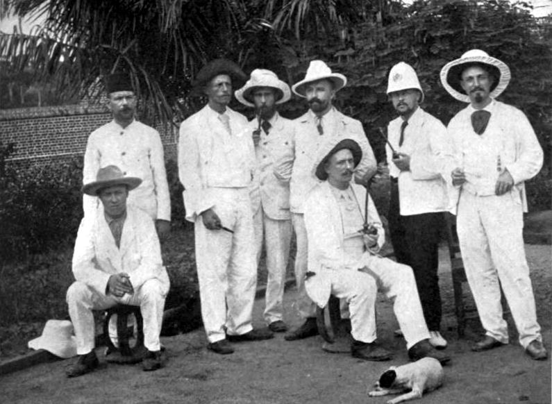 State Officials at Ponthierville - p. 220